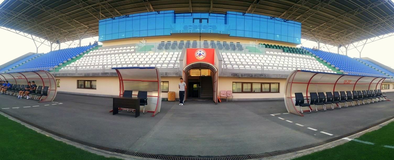 FFA academy stadium Yerevan, 08.08.2015